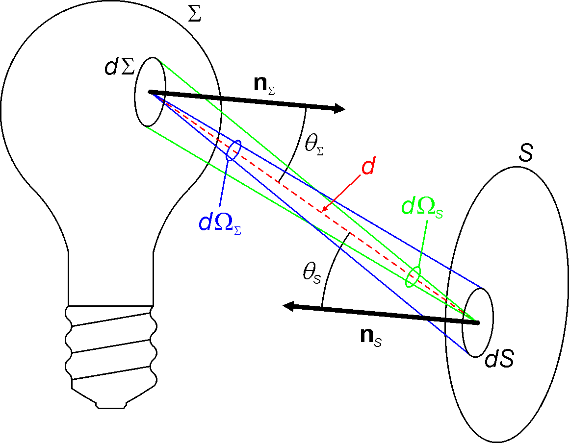 Etendue conservation in free space